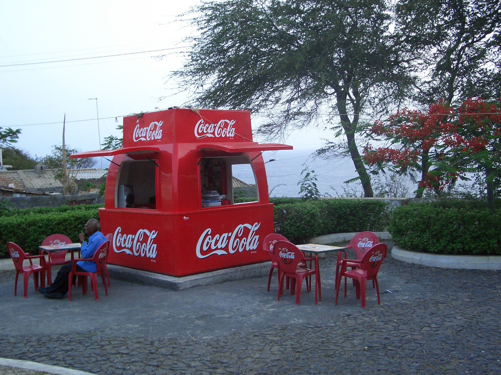 A Cocoa-cola sales booth on the Cabo verde island of Fogo in 2004